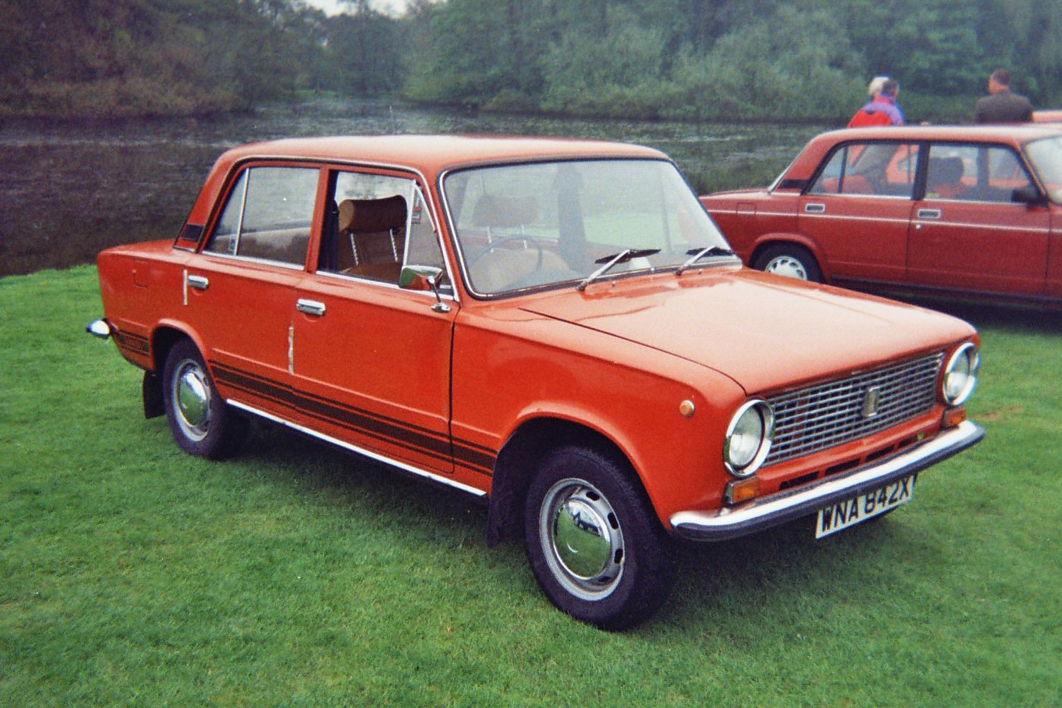 Lada 1300 (VAZ-2101.1) 4-door saloon at the “Wartburg Trabant IFA Club UK” rally 2006 in Stanford Hall, Leicestershire.